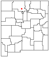 Location of Abiquiu within New Mexico.